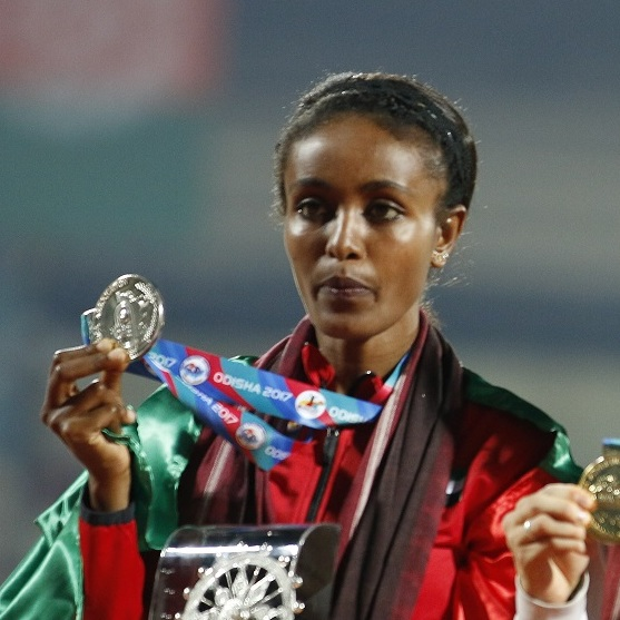 Alia Mohammed Of UAE during 22nd Asian Athletics Championships in Bhubaneswar.